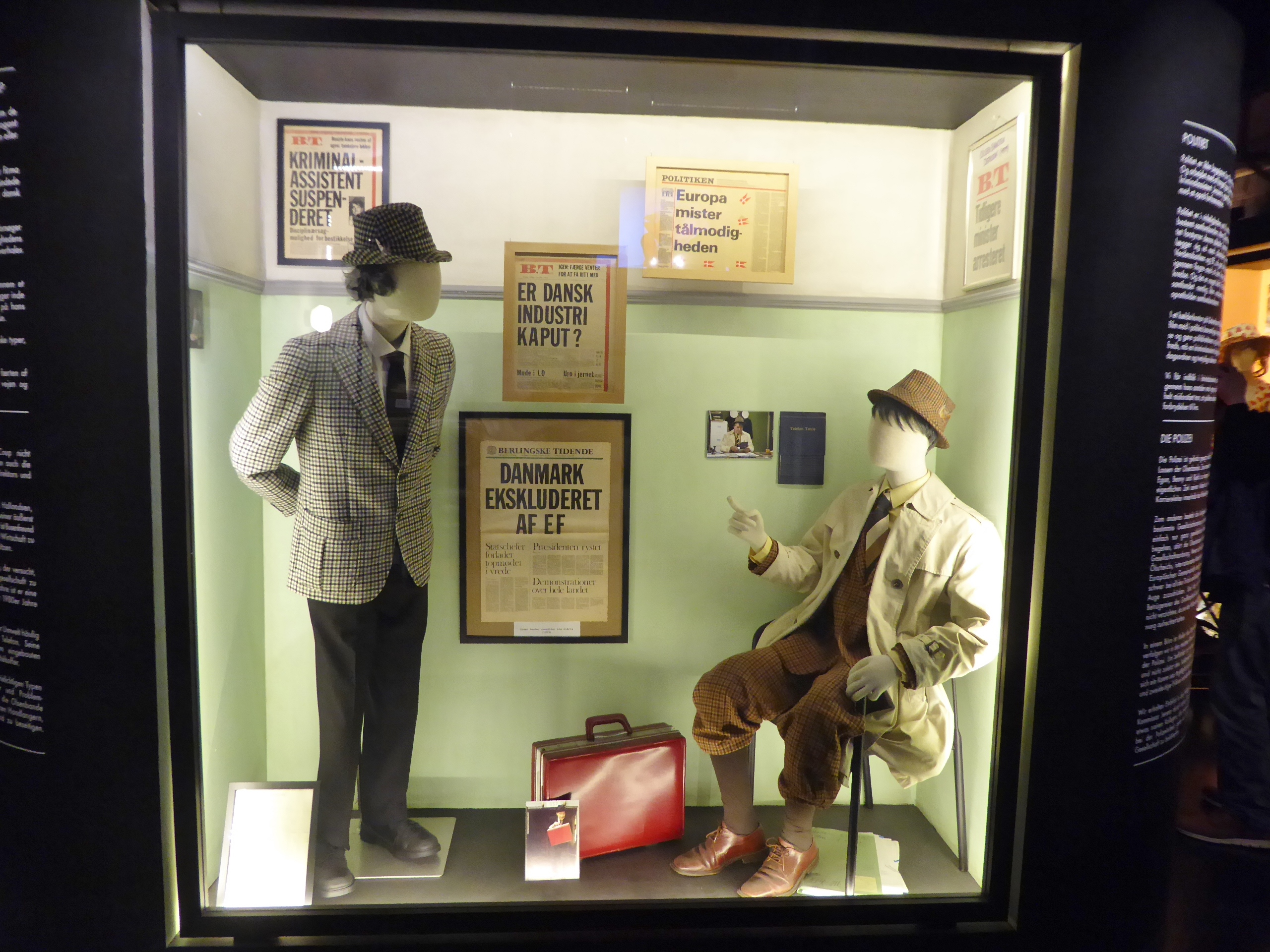 Costumes of the police detective Holm played by Ole Ernst and the detective inspector Jensen played by Axel Strøbye from the Danish Olsen-banden film series in a special exhibition at Nordisk Film in Copenhagen. The newspapers were used in various movies. They consists of fake headlines with unrelated text.